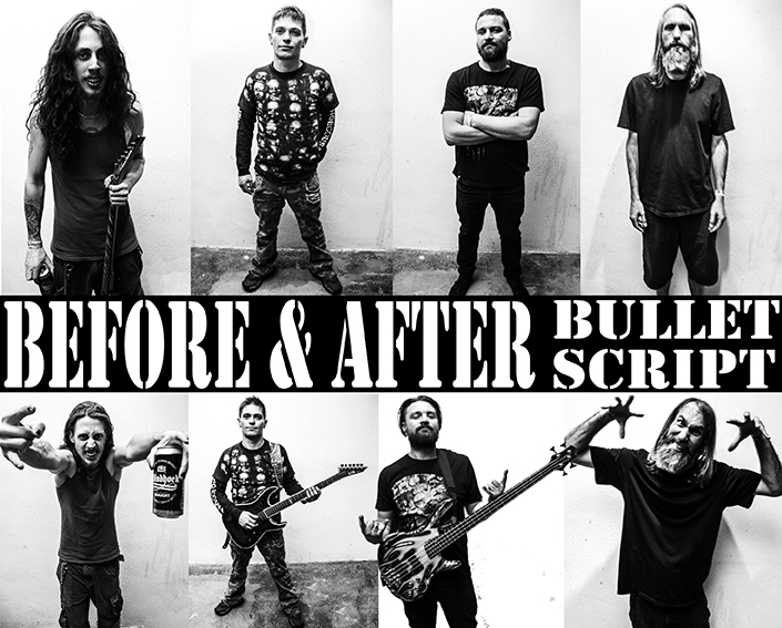 Bulletscript band before and after Namibian tour